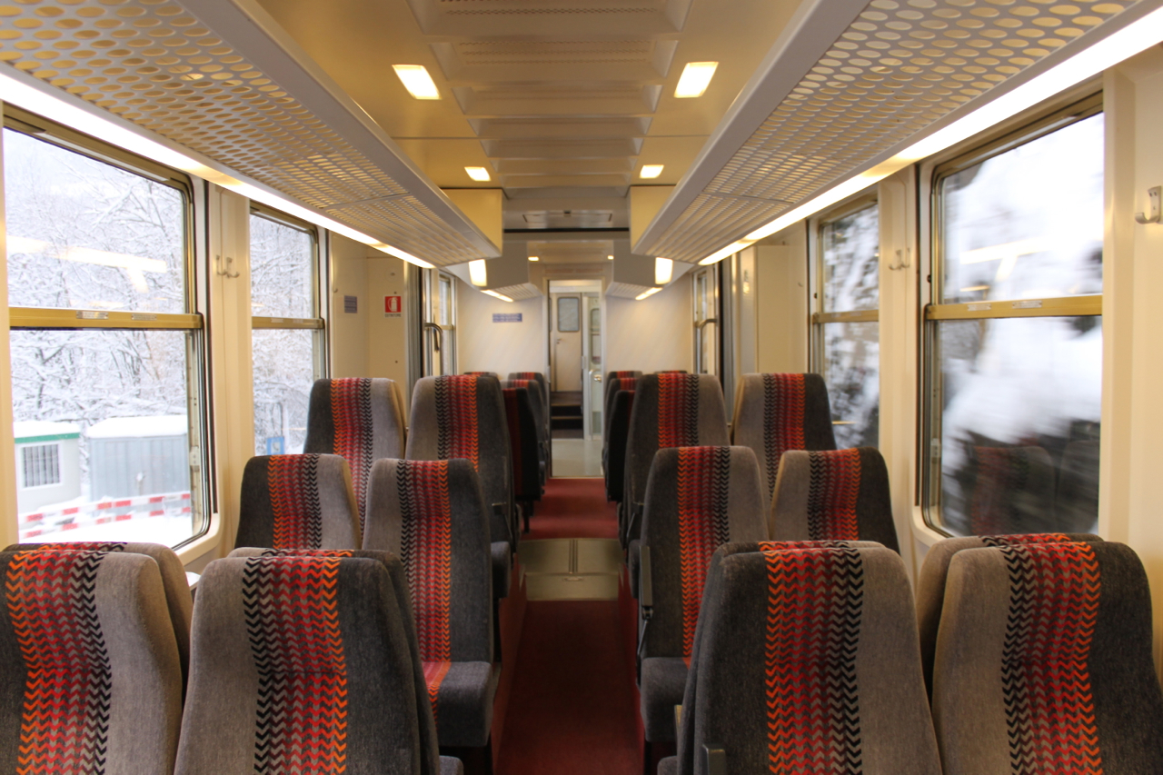 Interior (2nd class) of FART ABe 4/6 54.